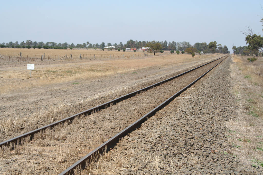 Geelong - Ballarat railway line, near Bannockburn, Victoria, Australia